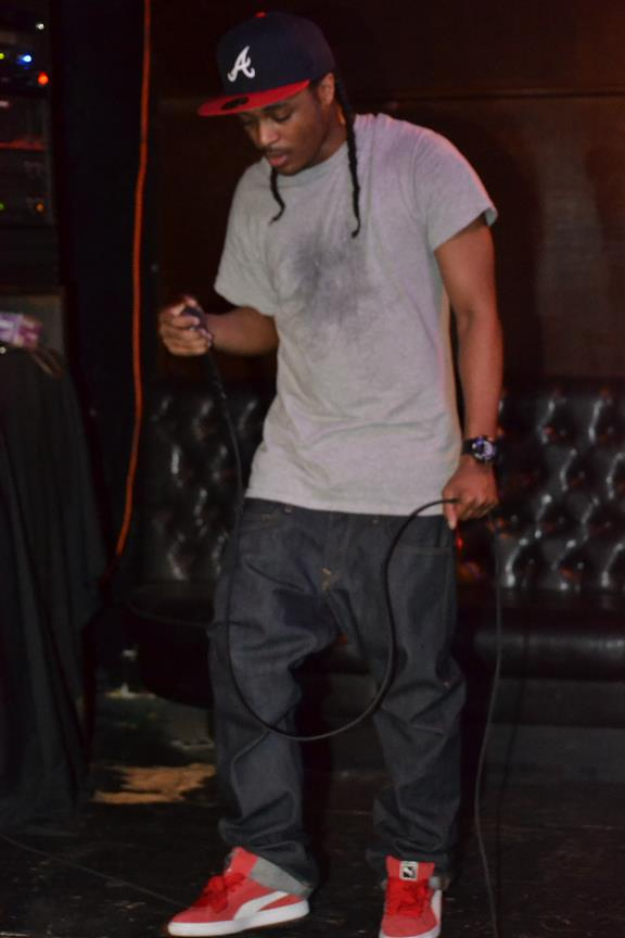 David Stones Performing in New York City On August 31, 2012